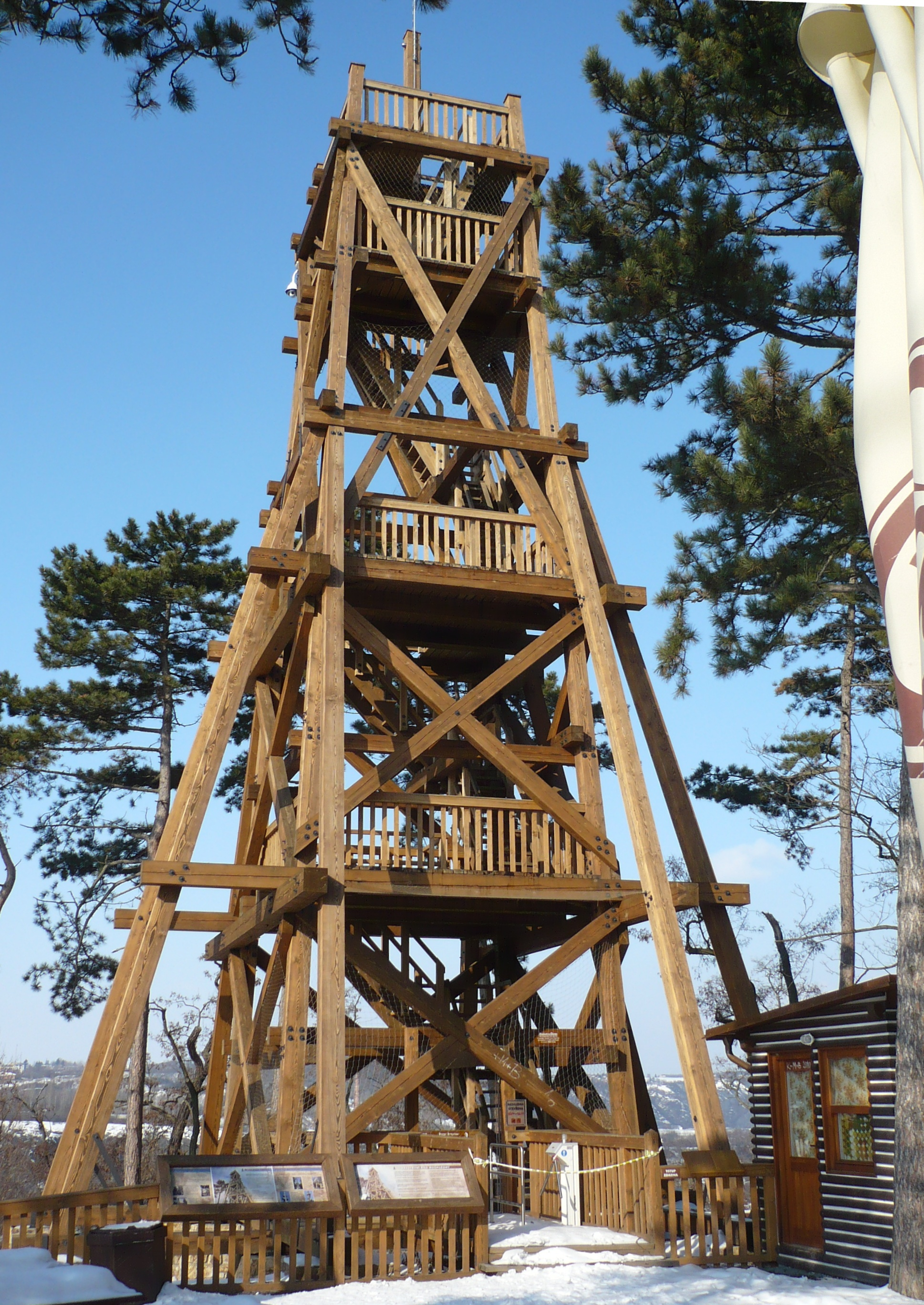 Rozhledna Obora, a wooden view tower in Prague Zoo. It is a copy of view tower that used to stand on the top of Smrk (Tafelfichte) in the Jizera Mountains Česky: Rozhledna Obora v pražské zoologické zahradě, kopie dřevěné rozhledny která dříve stávala na vrcholu Smrku v Jizerských horách